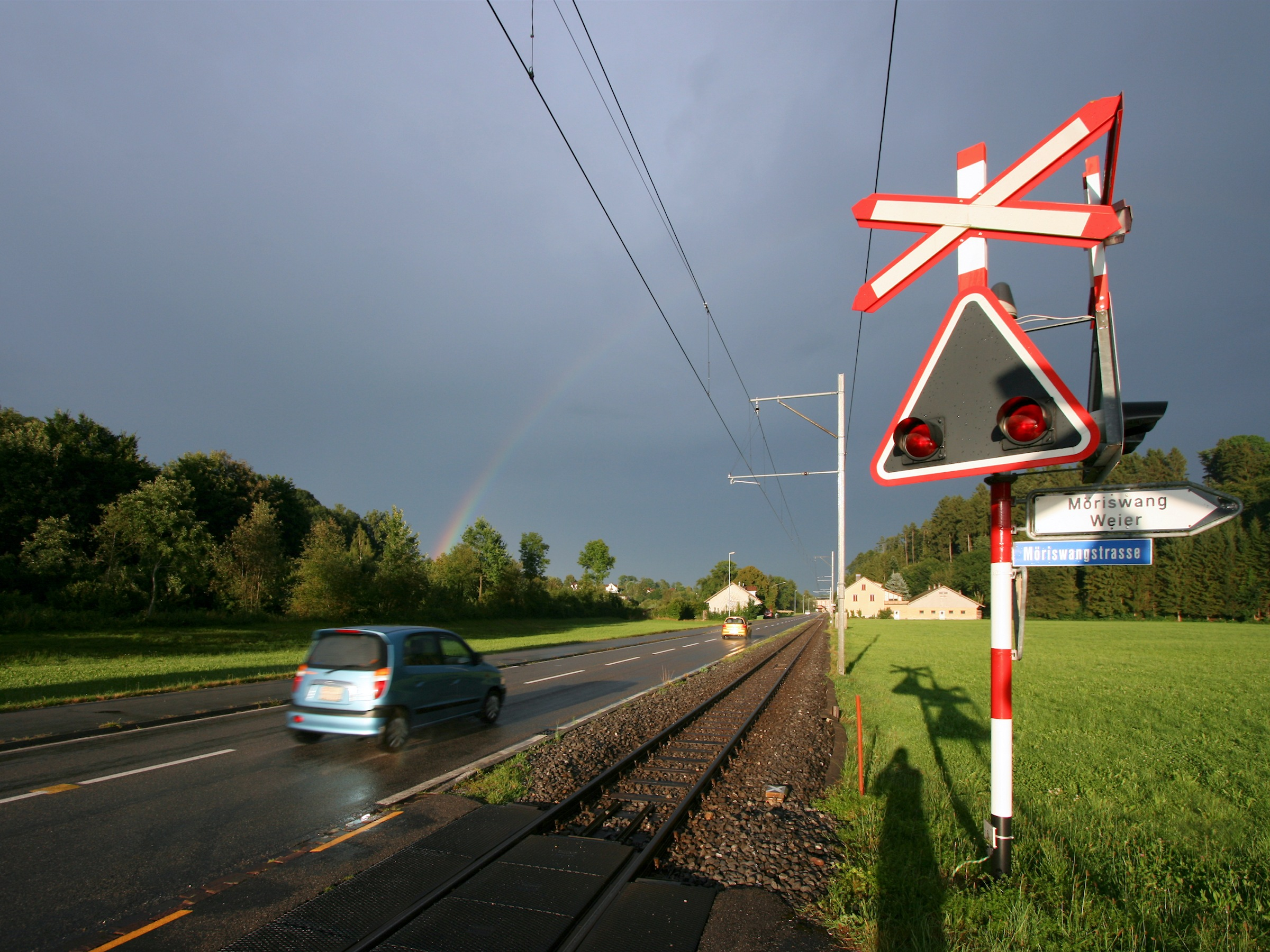 Primary road 7 (Hauptstrasse 7) in Wängi, Switzerland. View towards Wil (East). Parallel to the road is Frauenfeld–Wil metre gauge railroad track. Rainbow in the background.